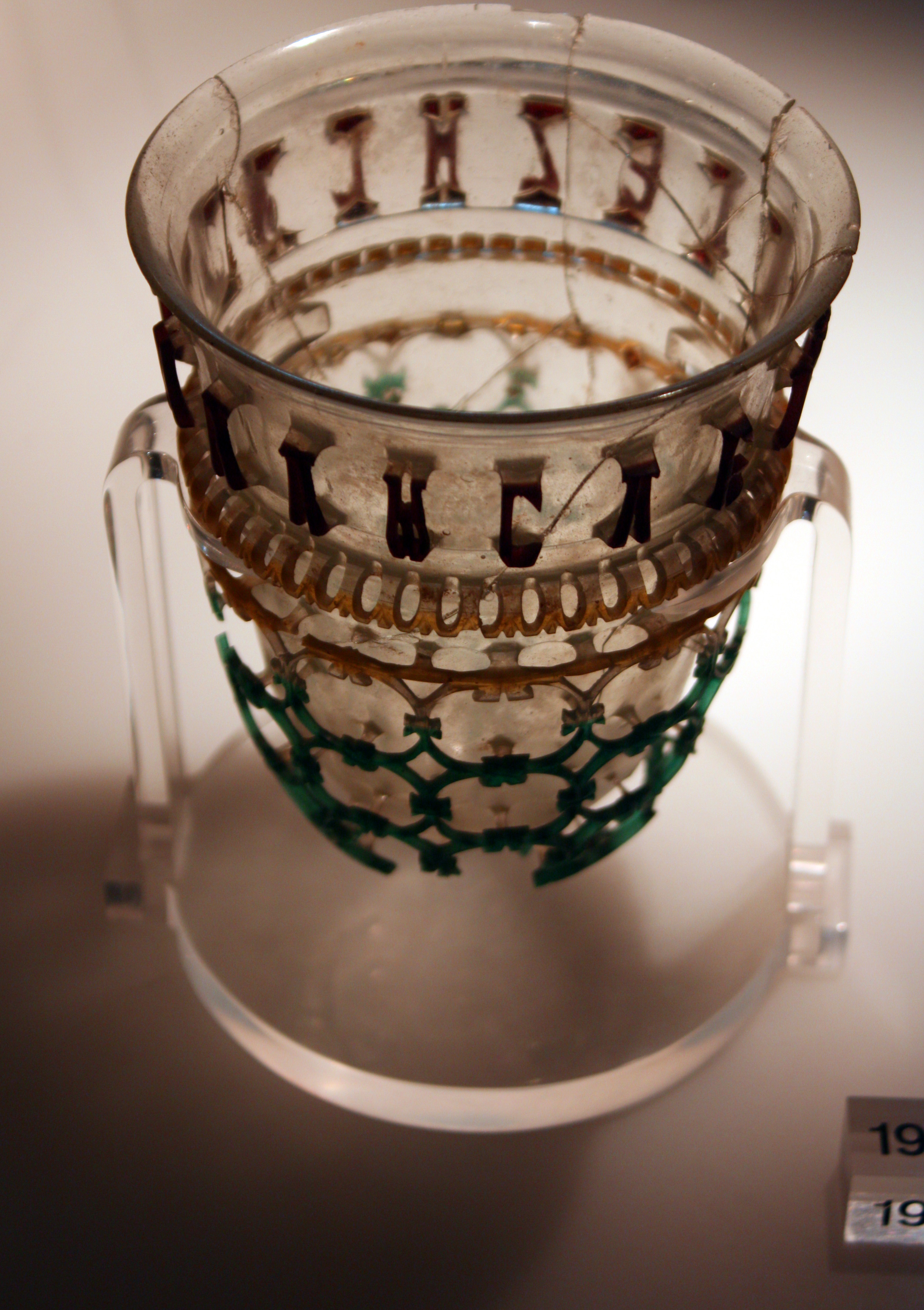 Roman glass beaker from second half of the 4th century. Found in Cologne, now in the “Römisch Germanisches Museum“.